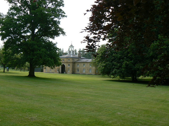 Hackwood Estate Management Building